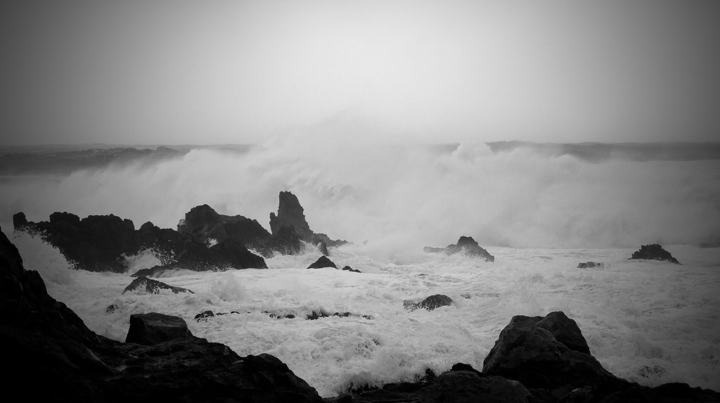 Bakio beach in the Basque Country during the January 2009 Cantabric storm